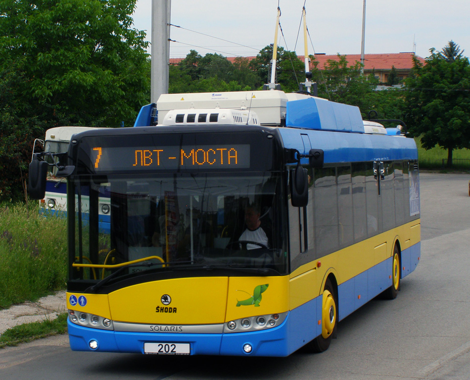 Skoda Solaris 26Tr in Pleven